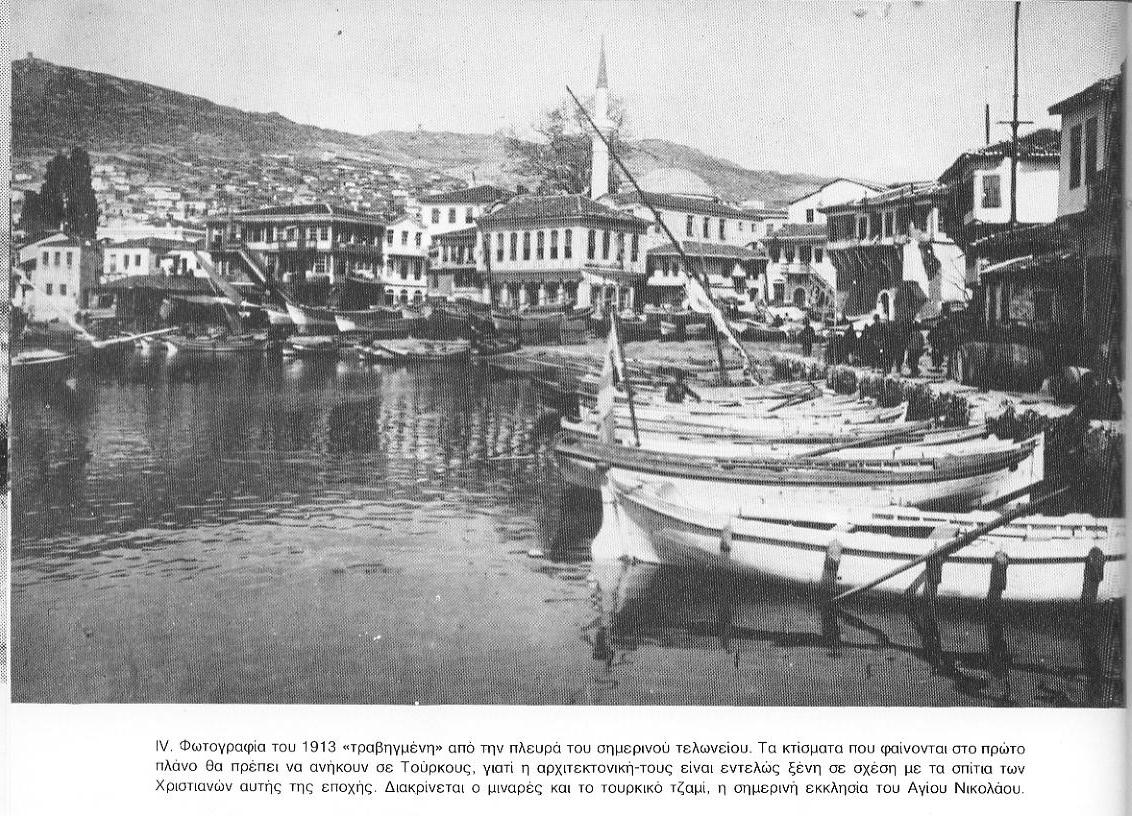 Panoramic view of Kaval in 1913. The mosque is Ibrahim Pasa mosque - today it is converted to the orthodox church of "Agios Nikolaos".